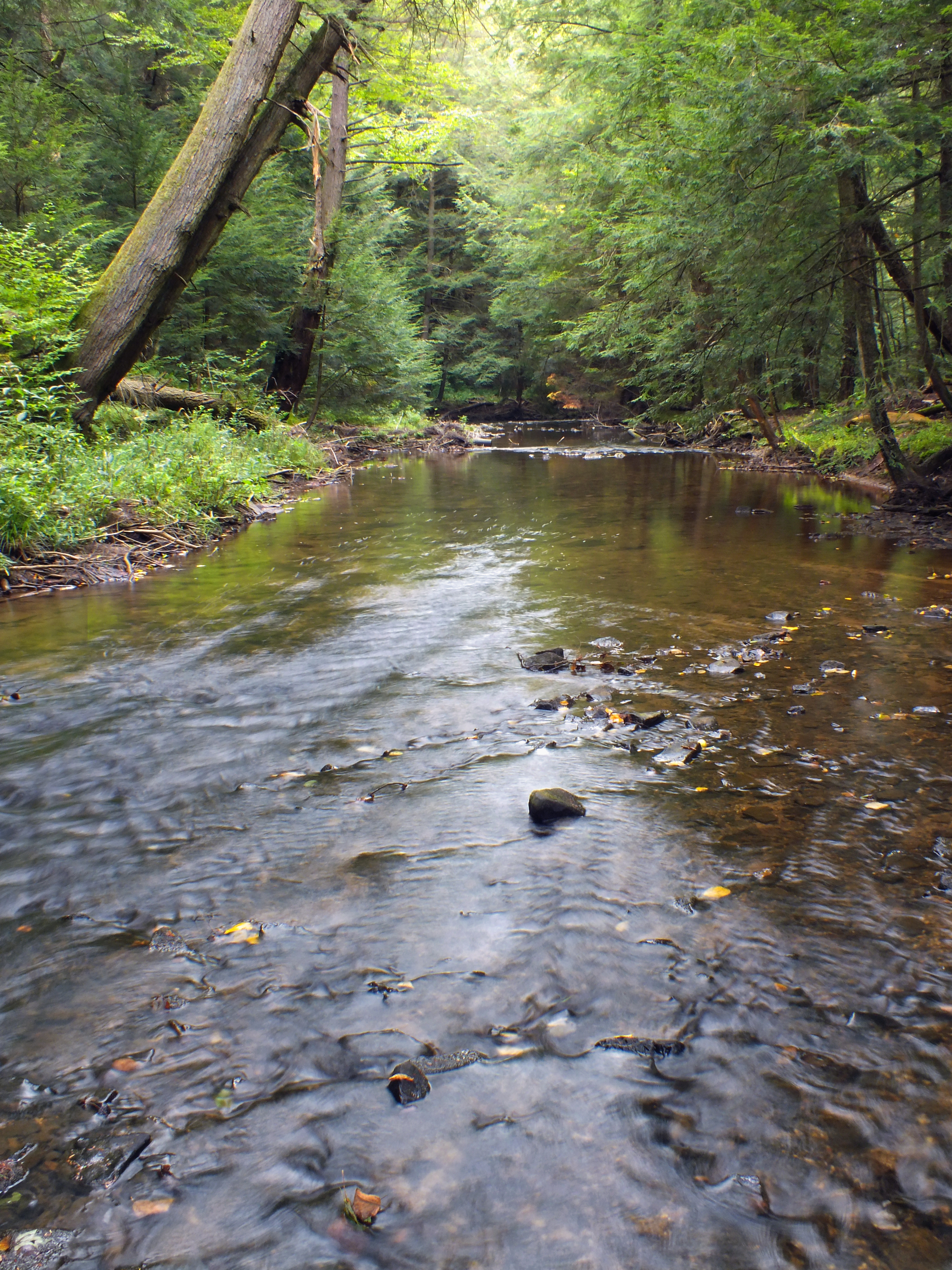 Twomile Run, a tributary stream of Tionesta Creek — in Wildcat Park, Allegheny National Forest, McKean County, northwestern Pennsylvania. Twomile Run flows beneath a dense canopy of hemlock and American beech, in the western Appalachian Mountains foothills. Tionesta Creek is a tributary of the Allegheny River, and therefore the Ohio River.